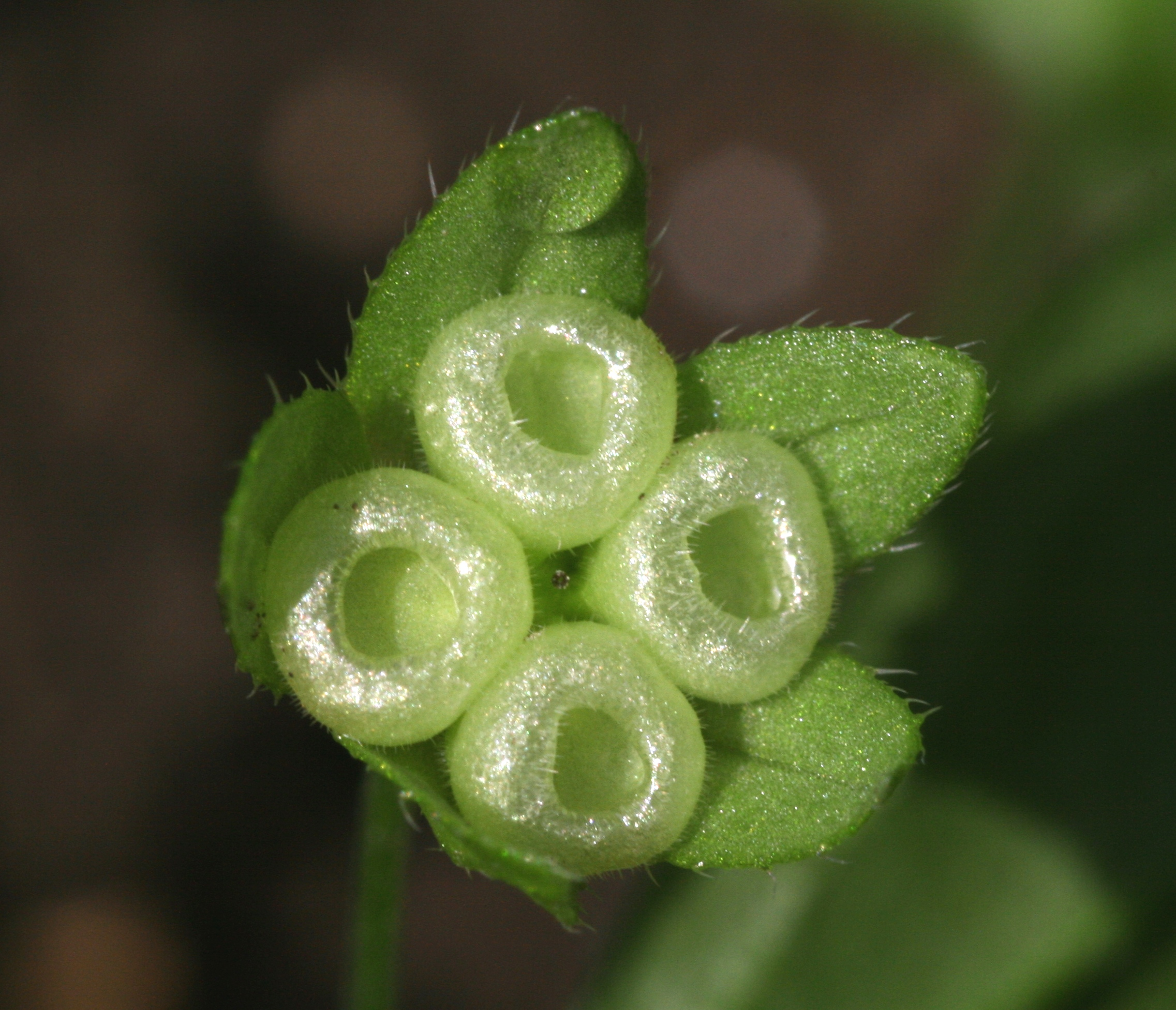 Fruit of Omphalodes scorpioides, Palava hills, Czech Republic